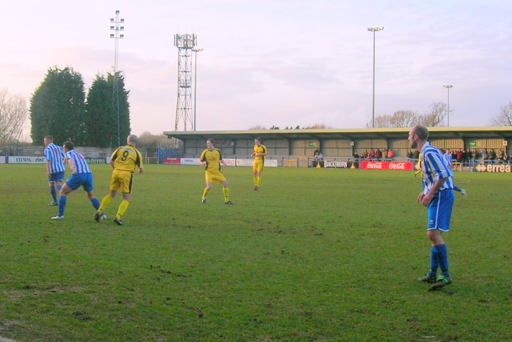 Clevedon Town, Boxing Day 2007